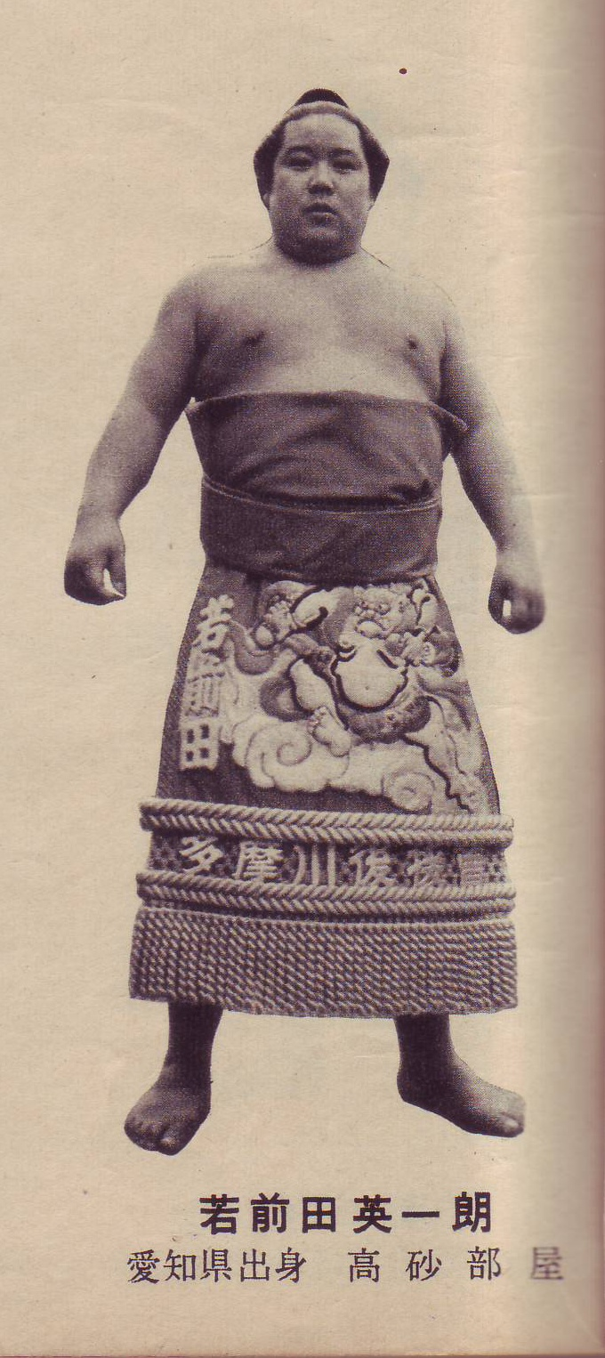 Wakamaeda Eiichiro (Sumo wrestler. Sekiwake). taken in 1958, or before that.